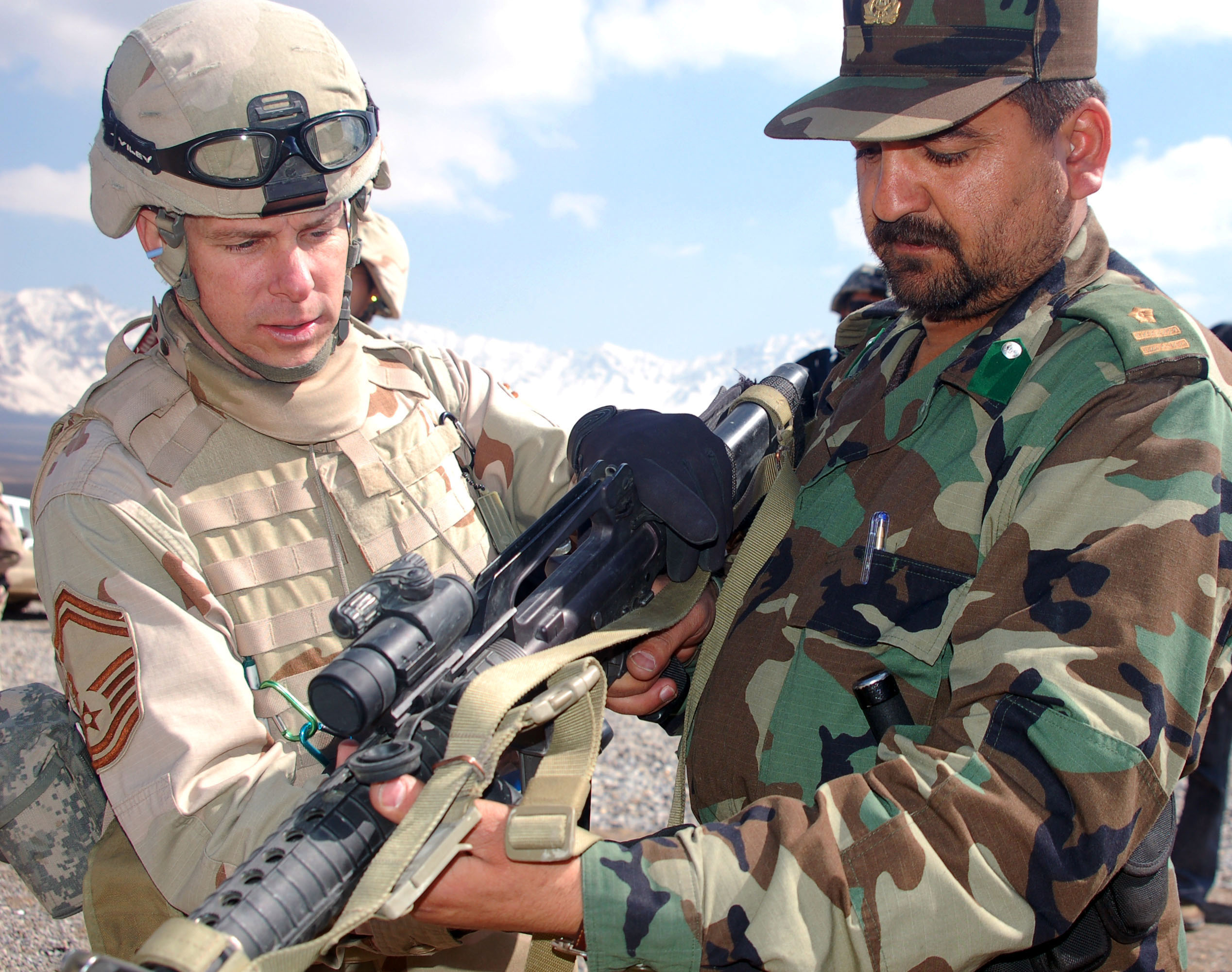 Senior Master Sgt. Robert Spaulding shows Afghan National Army Capt. Abdul Rahman, the mechanics of an M-16 and how to view the target through the optical scope March 14. Sergeant Spaulding is deployed from the 4th Logistics Readiness Squadron at Seymour-Johnson Air Force Base, N.C. (U.S. Air Force photo/Senior Airman Stacia Zachary)